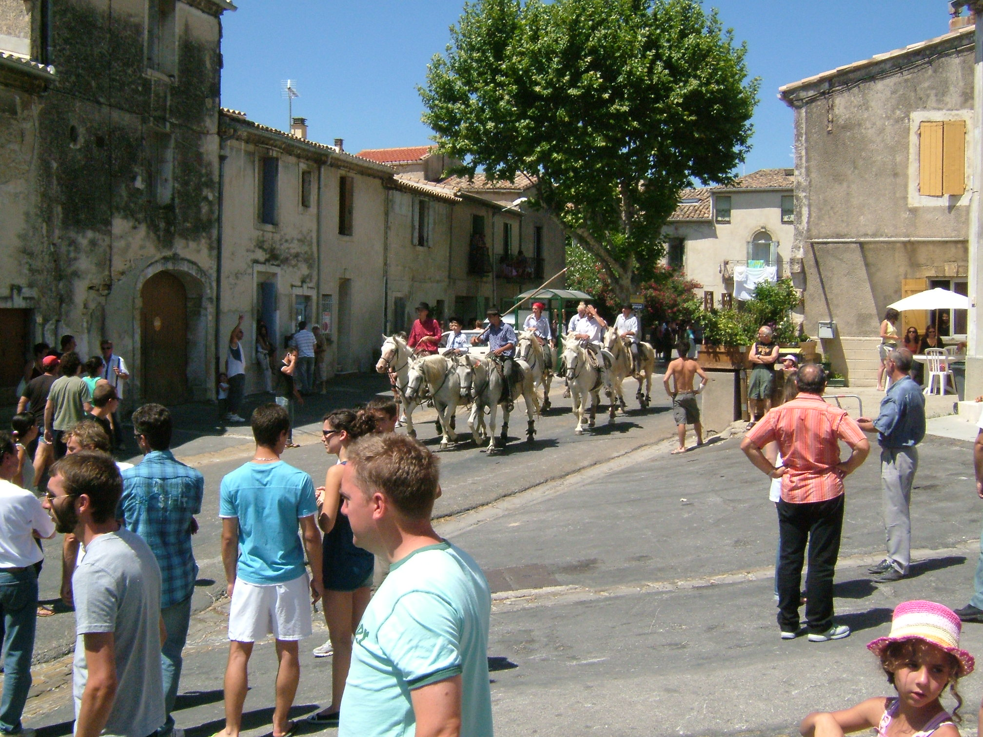 In front of the catholic church at Congénies. This was taken during the bull running, a group of guardians are riding through and old and young are out to watch. This is inside the bull gates, but there are no bulls loose.